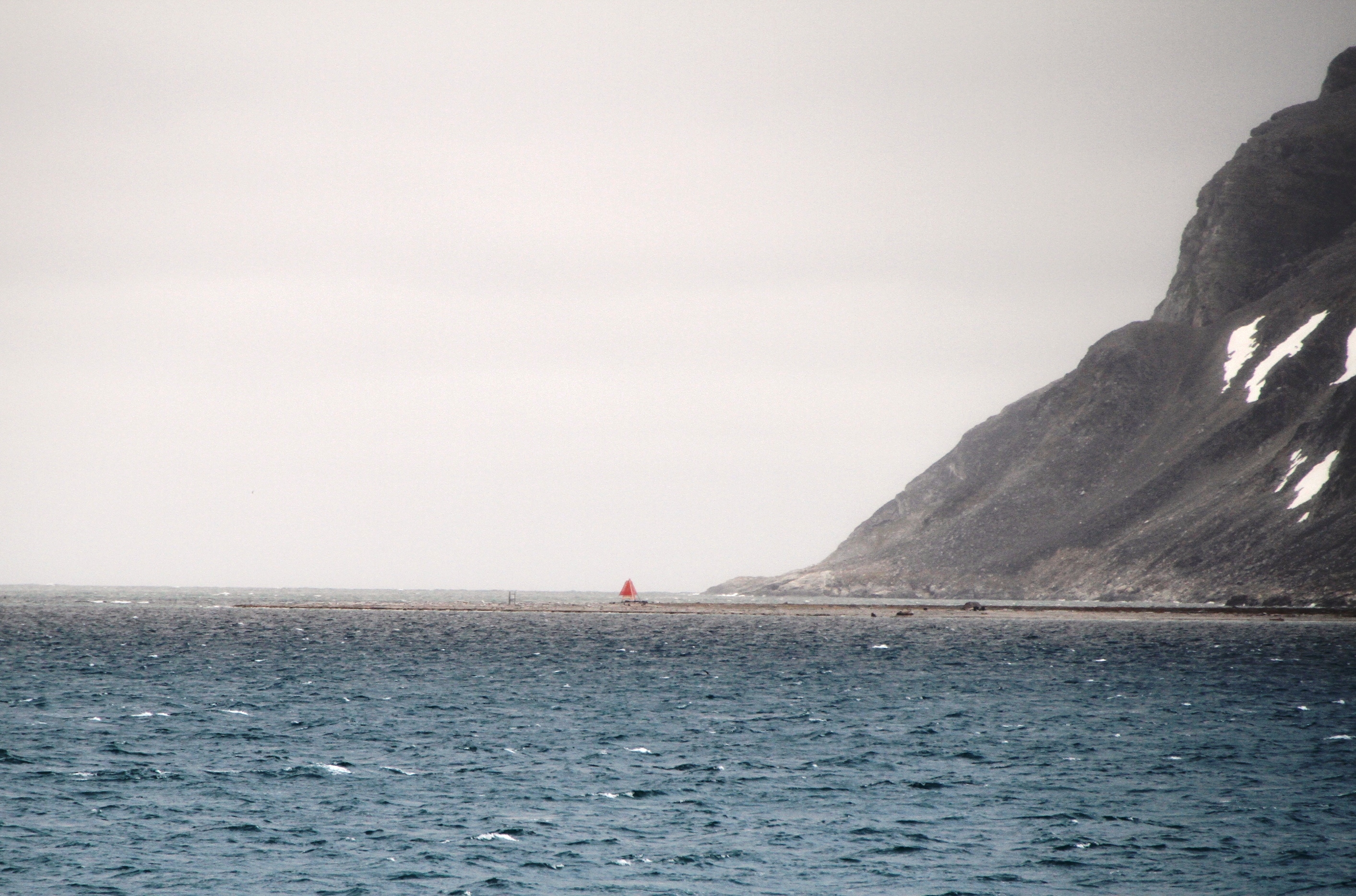 Photo from the northwestern lands of Albert I Land, around Amsterdamøya (Smeerenburg), northwest Spitsbergen (Svalbard).